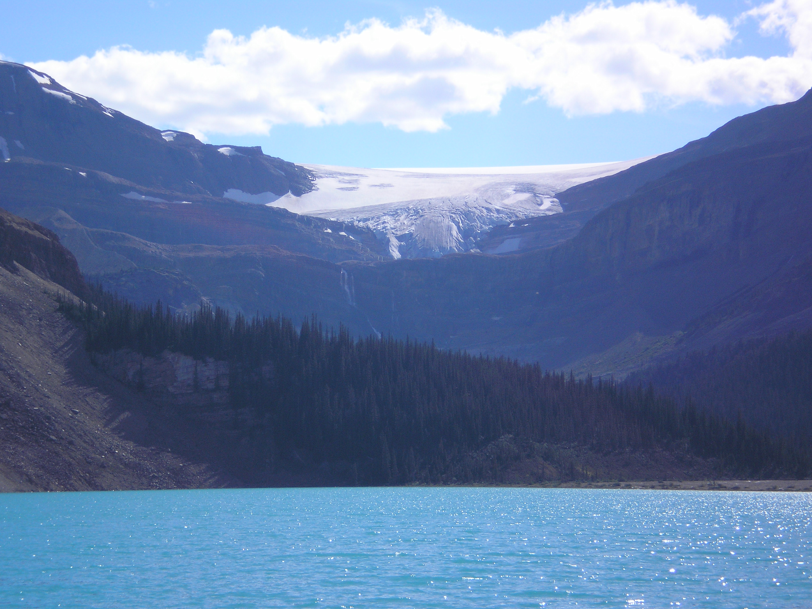 Bow Lake and Bow Glacier in Banff National Park, Alberta, Canada.